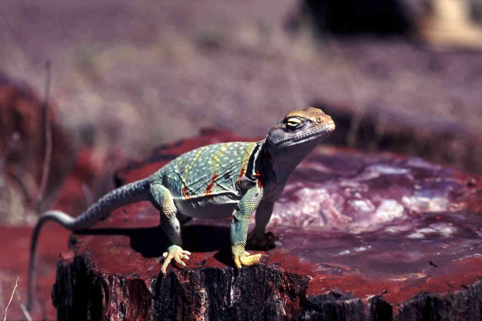 Petrified Forest National Park, Arizona, USA